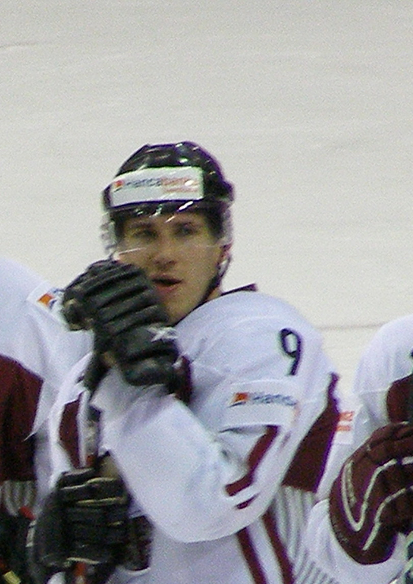 Latvia VS Norway (IIHF World Hockey Championship in Halifax NS, May 11 2008)